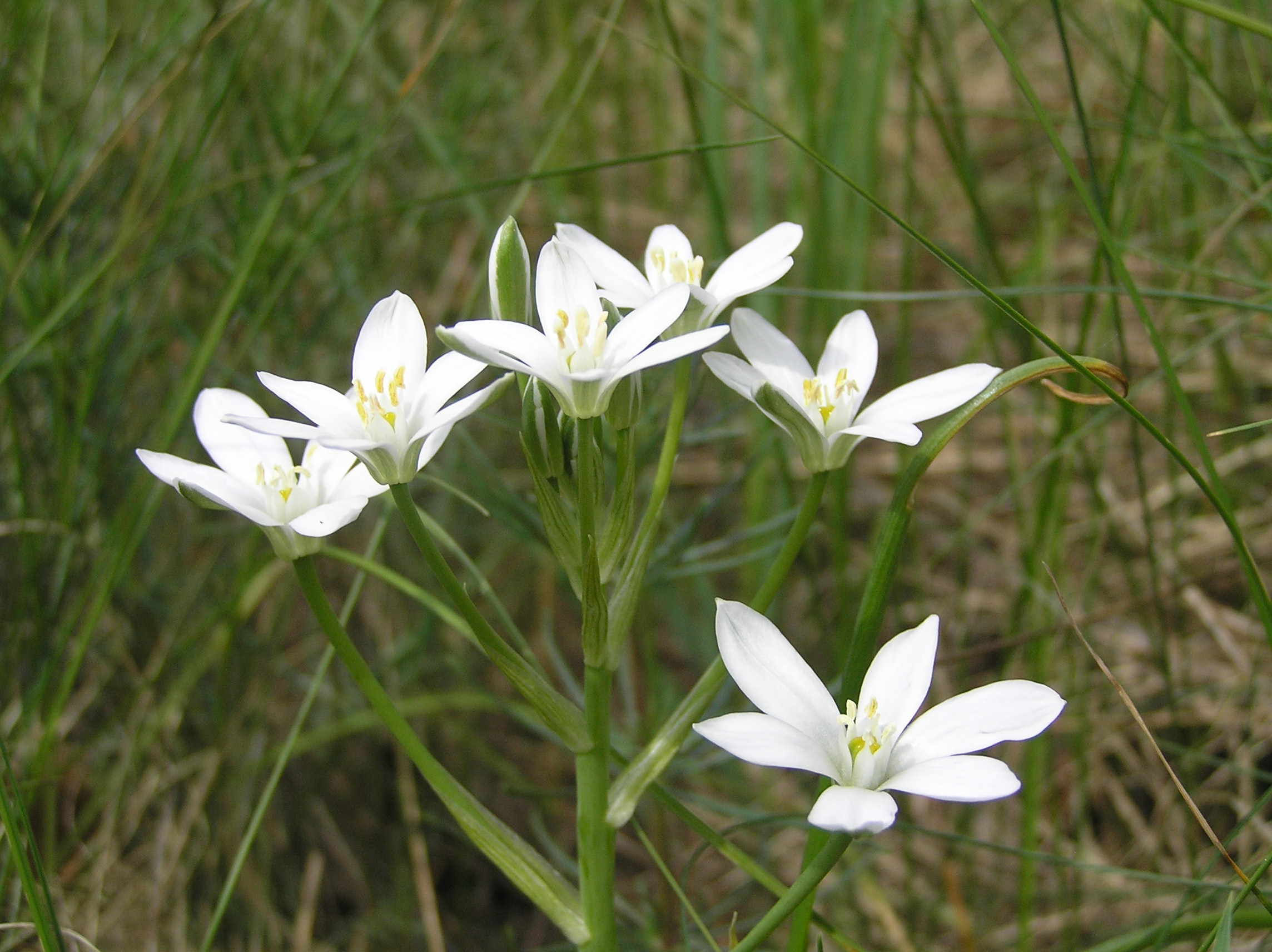 Ornithogalum kochii, Lanžhot, Southern Moravia, Czech Republic